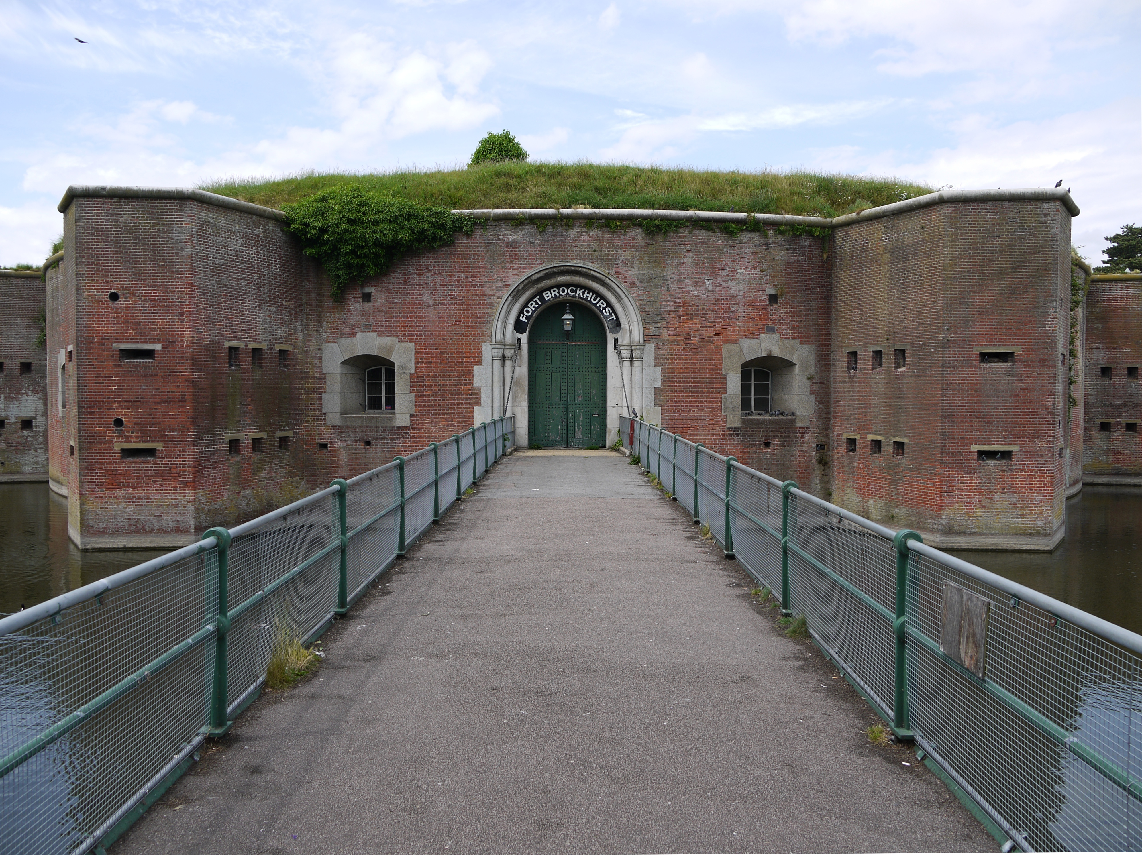 Photo of the entrance to Fort Brockhurst